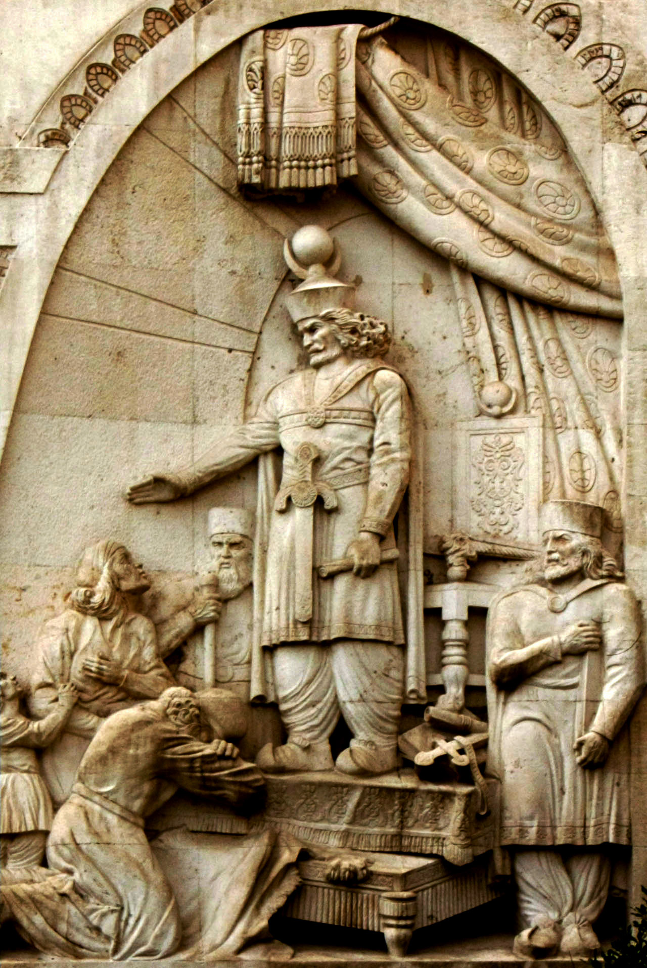 Anushirawan the Just (justice statue) by Gholamreza Rahimzadeh Arjang